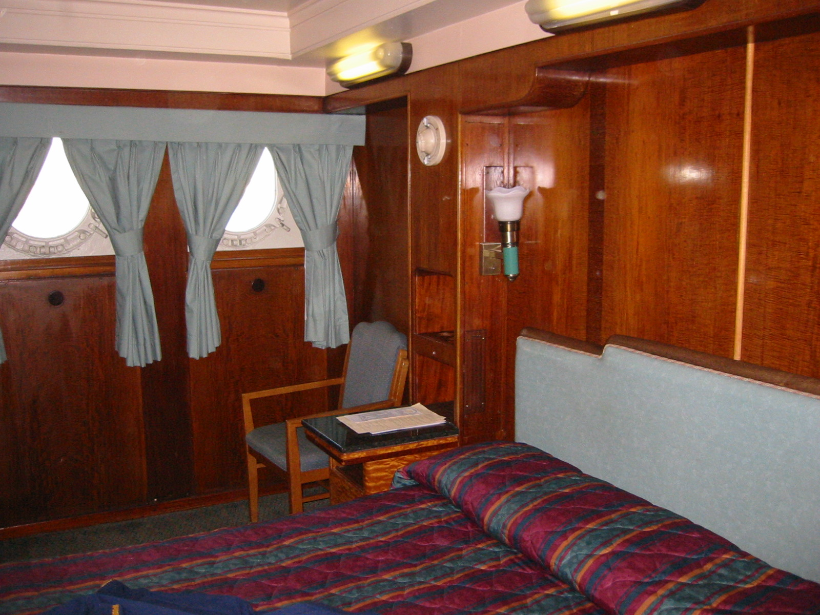 Cabin on the RMS Queen Mary.